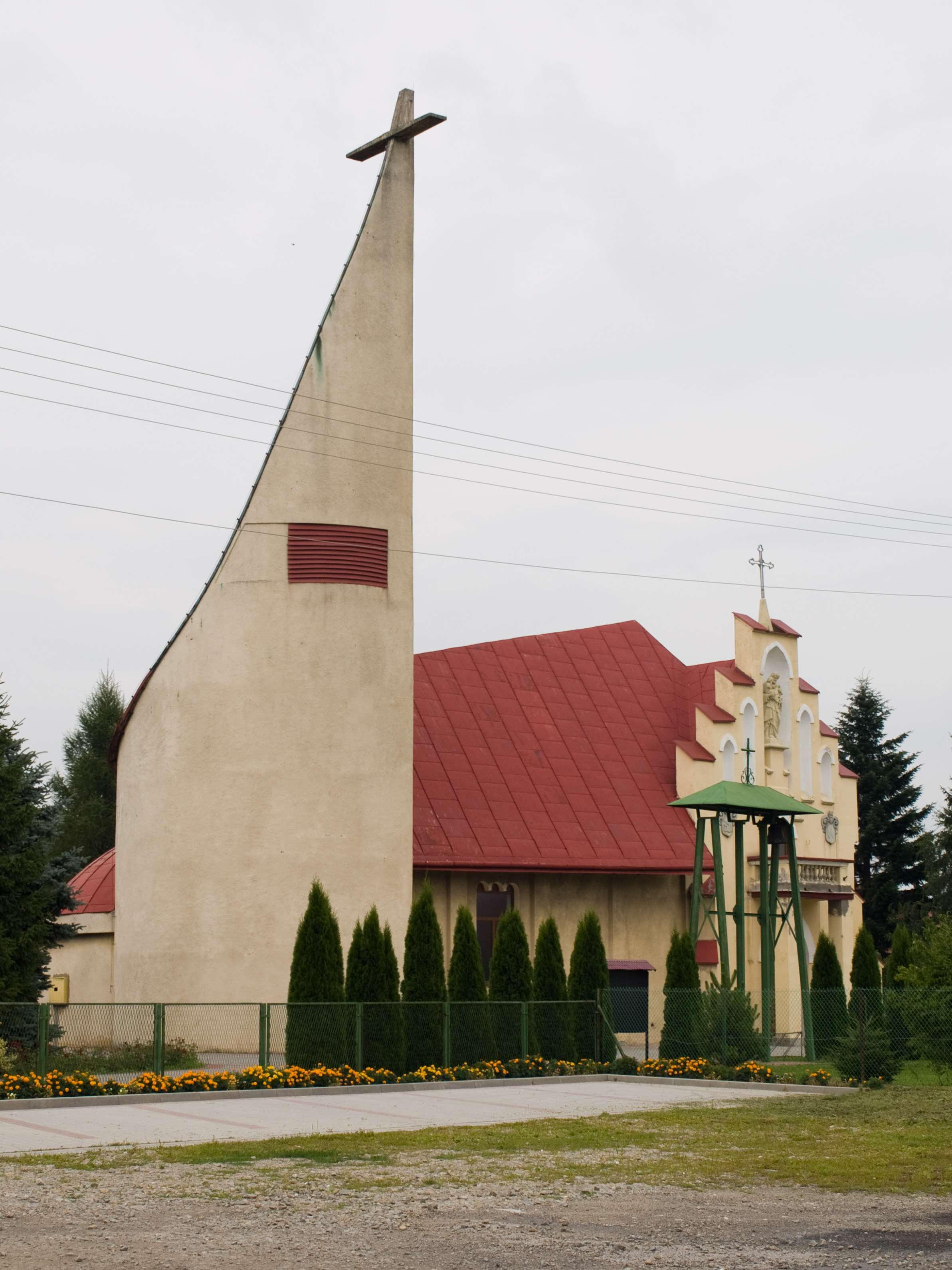 Church, Hurko, Subcarpathian Voivodeship